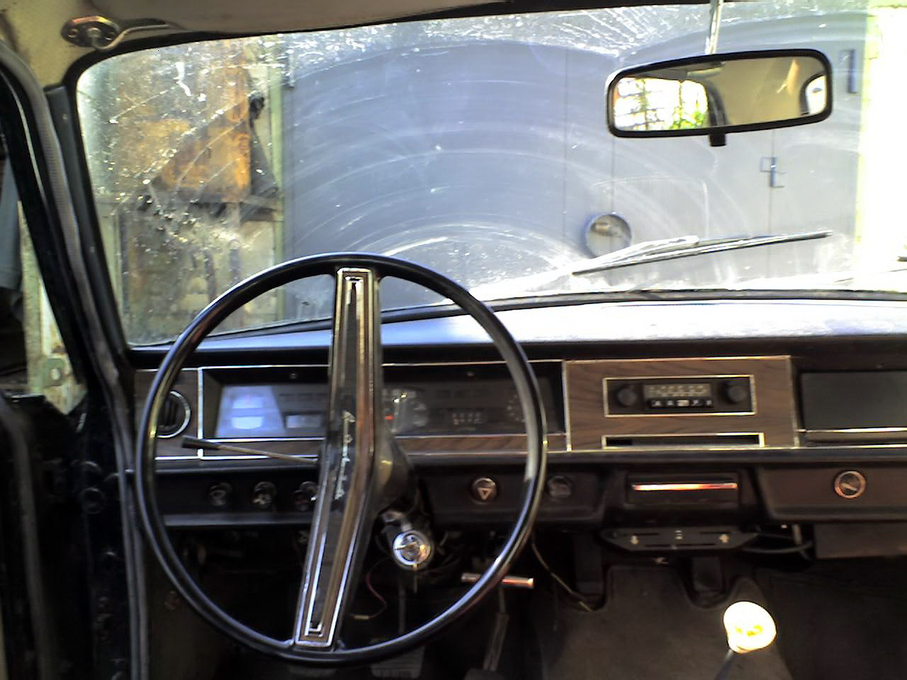 Soviet classic car - '79 Volga. Interior. Taken by Stanislav Alexeyev in 2007 to be posted in "Volga" and "GAZ-24" Wikipedia articles. Sorry for poor quality, my digital camera was uncharged that day and I used my mobile phone instead ;-) No (C) license.